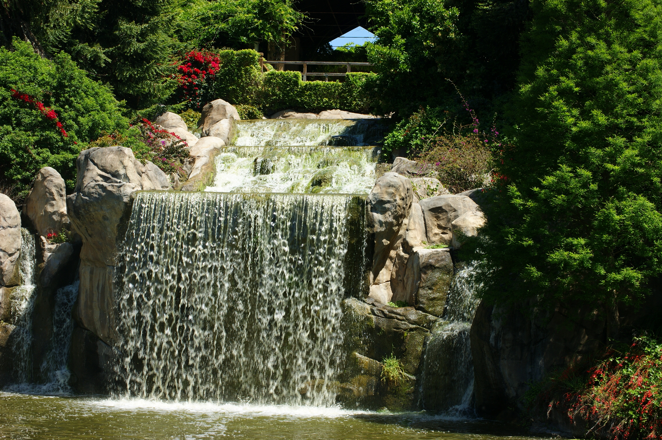 Waterfall located at Hunter Valley Gardens